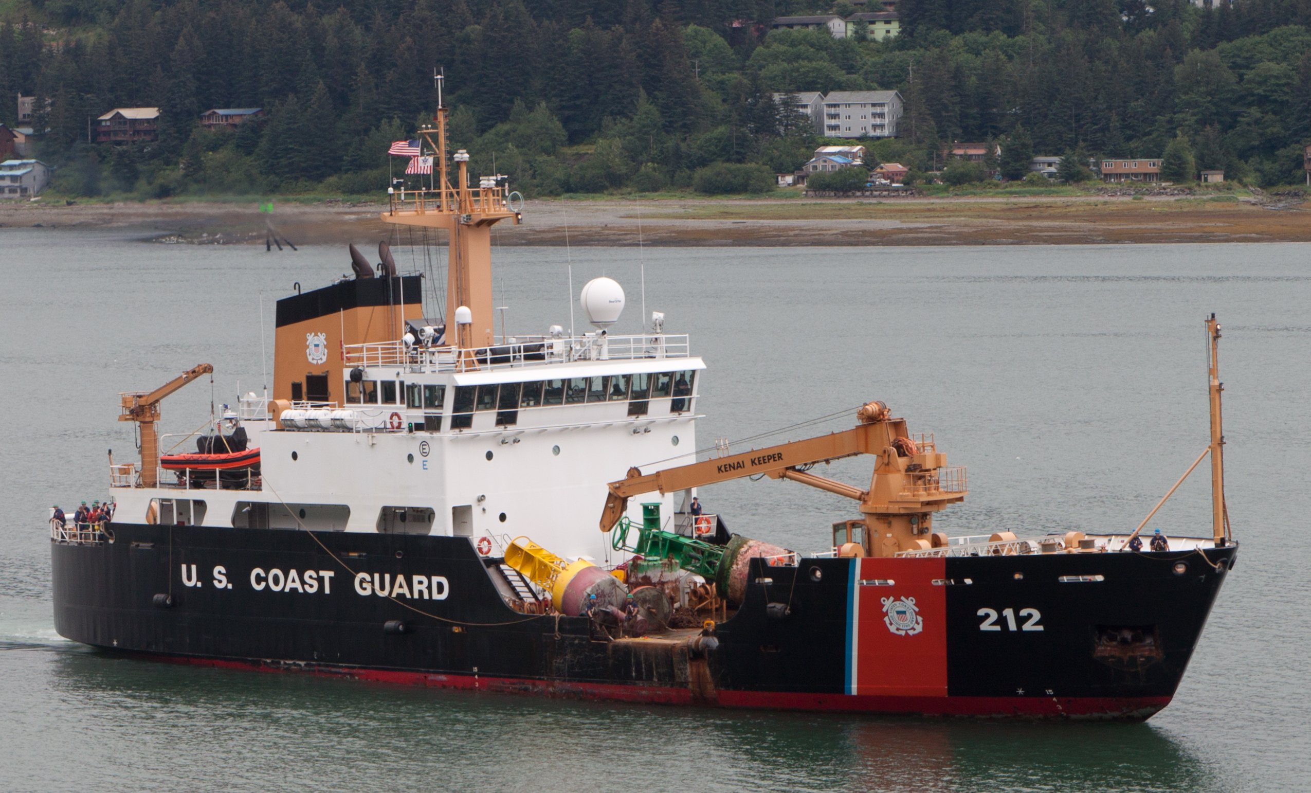 USCGC Hickory in Juneau harbor.